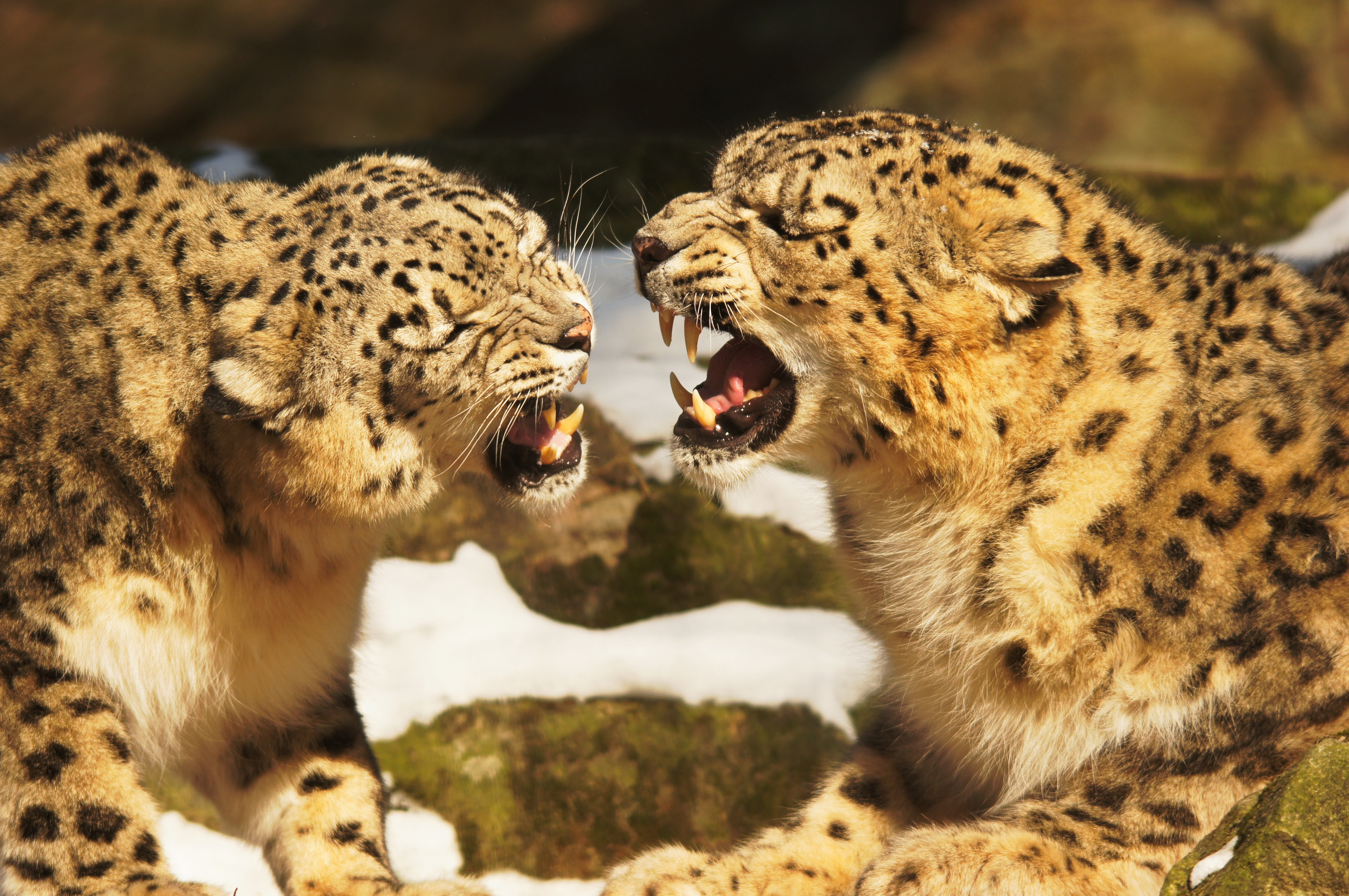 Snow leopards fight-playing